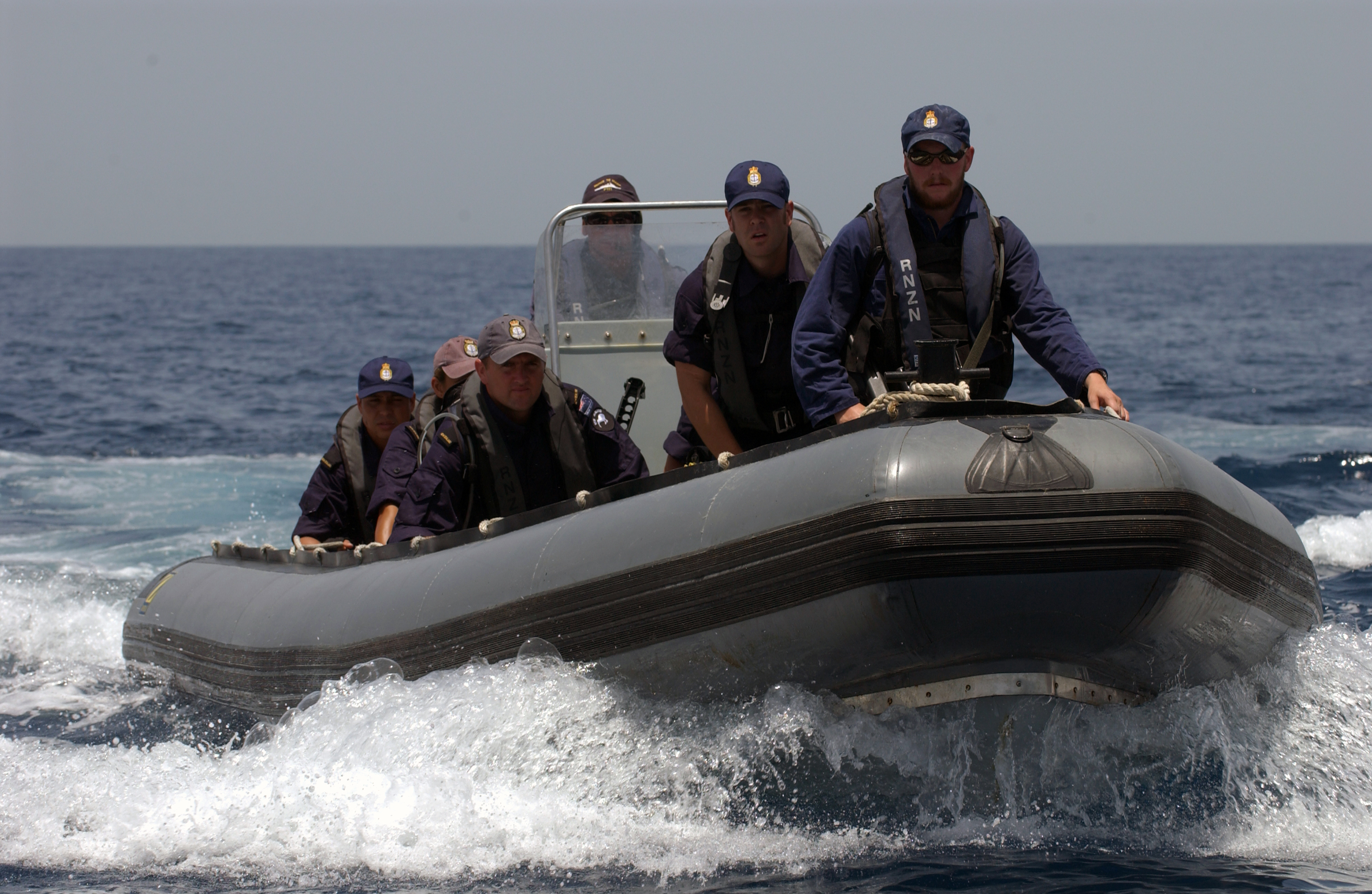 Gulf of Oman (May 06, 2004) - Sailors assigned to boarding team from the New Zealand frigate HMNZS Te Mana (F 111) man a Rigid Hull Inflatable Boat (RHIB) to conduct a search of fishing dhows in the area. The multinational Combined Task Force One Five Zero (CTF-150) was established to monitor, inspect, board, and stop suspect shipping to pursue the war on terrorism and includes operations currently taking place in the North Arabia Sea to support Operation Iraqi Freedom. Countries contributing to CTF-150 currently include Australia, Canada, France, Germany, Italy, Pakistan, New Zealand, Spain, United Kingdom and the United States. U.S. Navy photo by Photographer's Mate 1st Class Bart Bauer. (RELEASED)